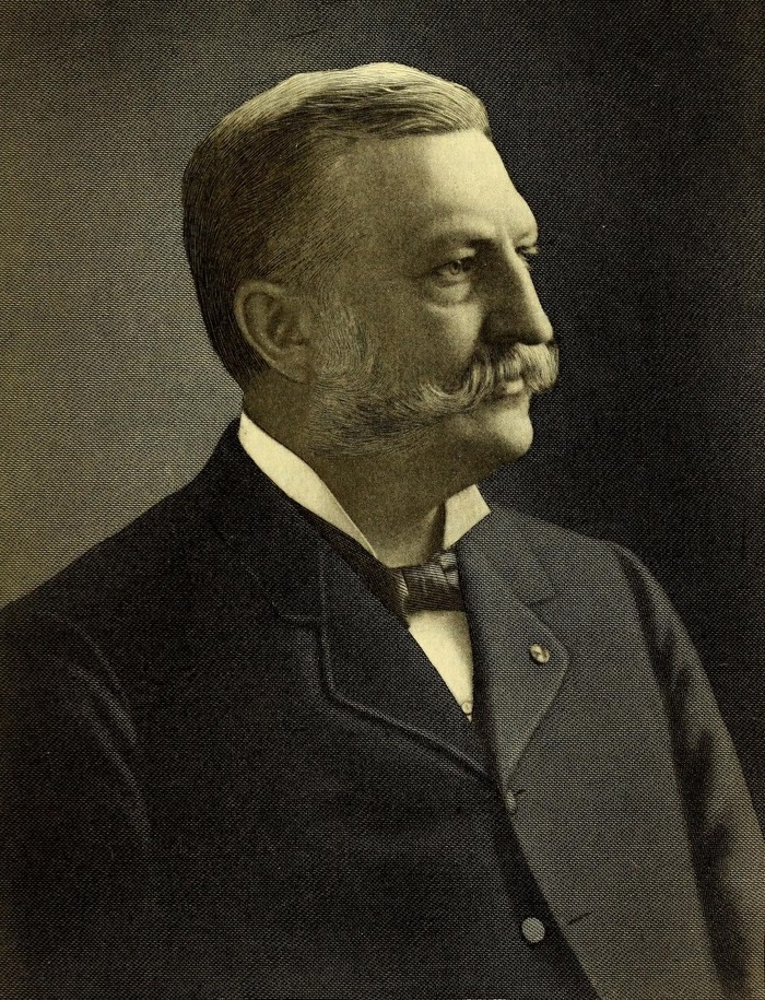 Aldace F. Walker (Member, Interstate Commission)